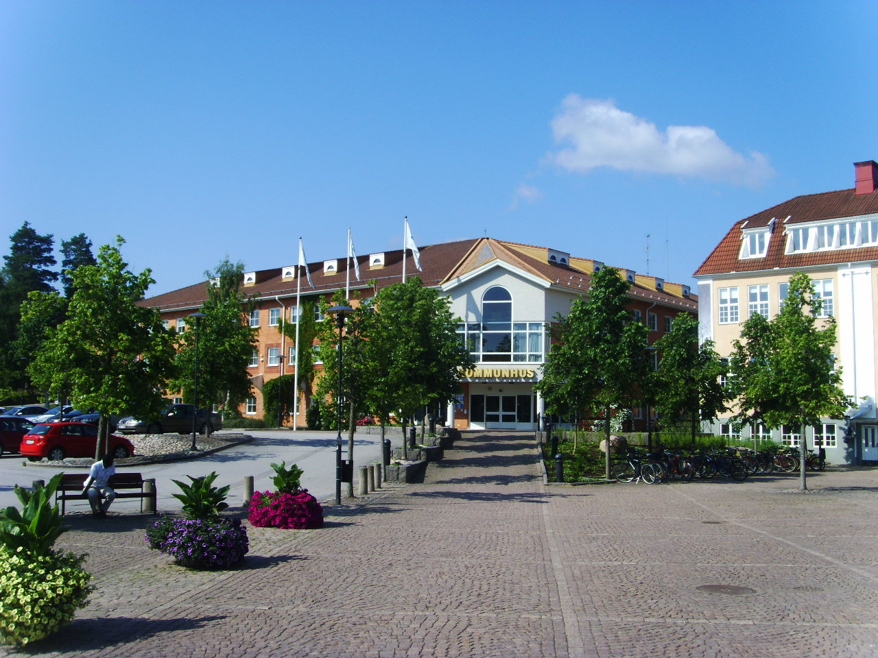 Hultsfred is a locality and the seat of Hultsfred Municipality, Kalmar County, Sweden with 5,305 inhabitants in 2005. It is best known for the Hultsfred Festival.